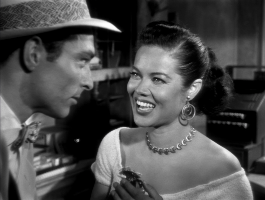 Lee Van Cleef & Dona Drake in Kansas City Confidential - cropped screenshot